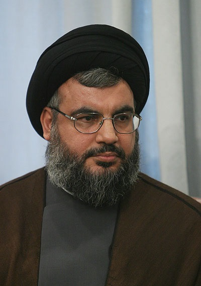 Hassan Nasrallah meets Khamenei in visit to Iran (3 8405110291 L600)